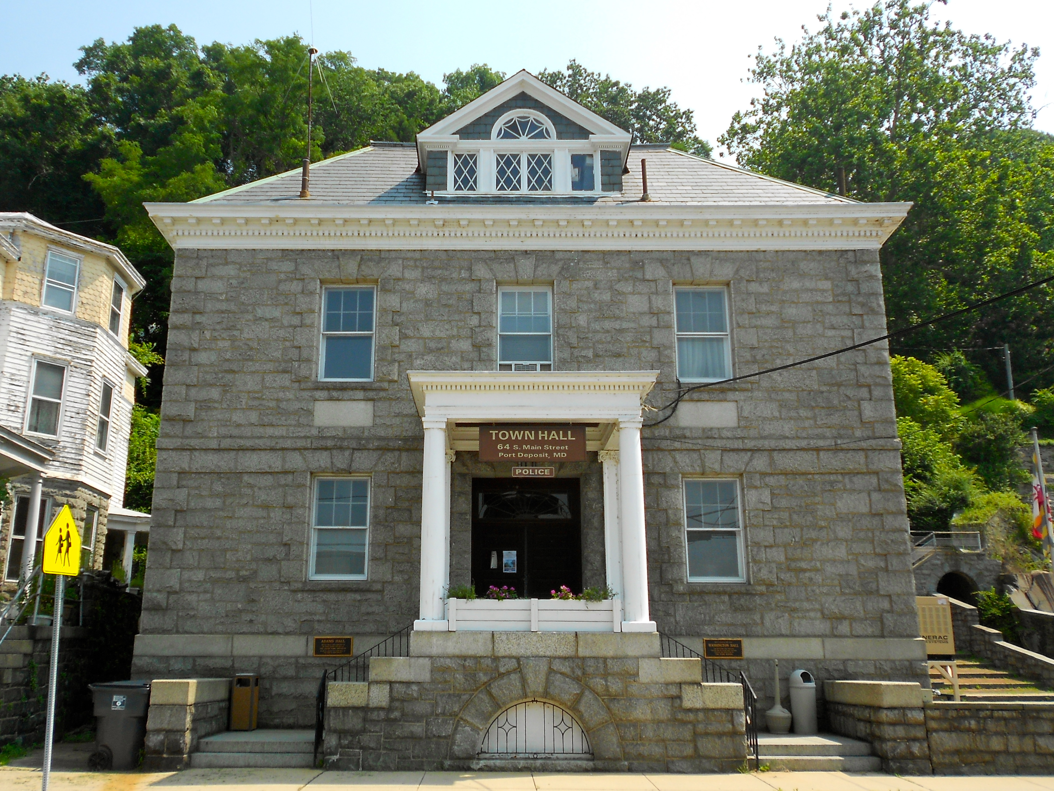 Building in Port Deposit, Maryland. In the NRHP historic district.